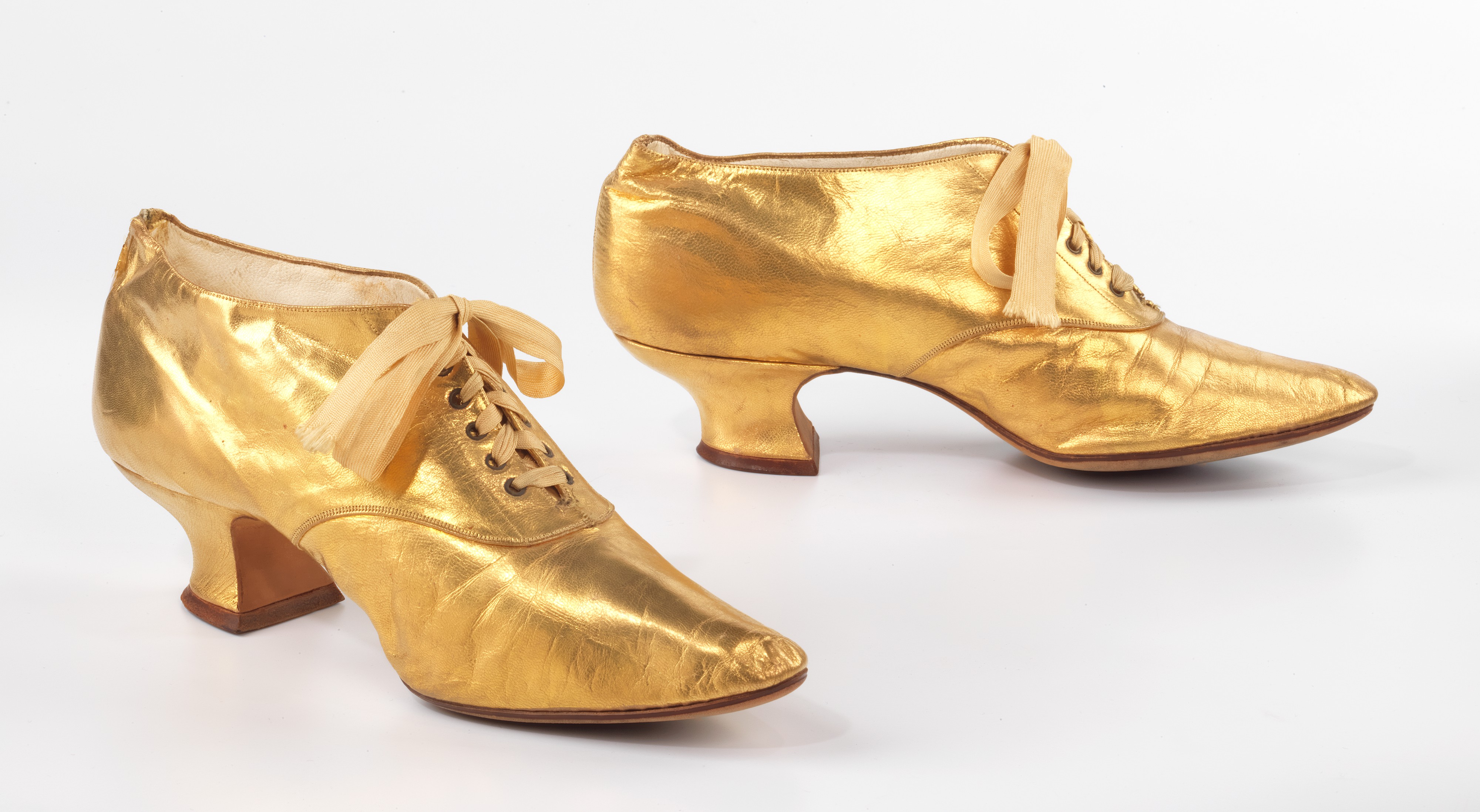 American; Evening oxfords